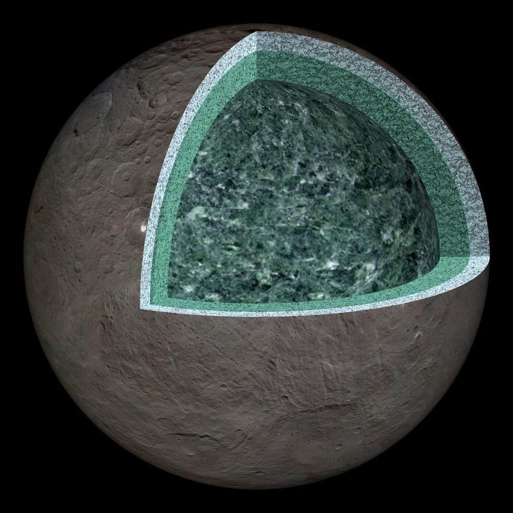 PIA22660: Ceres' Internal Structure (Artist's Concept) This artist's concept summarizes our understanding of how the inside of Ceres could be structured, based on the data returned by the NASA's Dawn mission. Using information about Ceres' gravity and topography, scientists found that Ceres is "differentiated," which means that it has compositionally distinct layers at different depths. The most internal layer, the "mantle" is dominated by hydrated rocks, like clays. The external layer, the 24.85-mile (40-kilometer) thick crust, is a mixture of ice, salts, and hydrated minerals. Between the two is a layer that may contain a little bit of liquid rich in salts, called brine. It extends down at least 62 miles (100 kilometers). The Dawn observations cannot "see" below about 62 miles (100 kilometers) in depth. Hence, it is not possible to tell if Ceres' deep interior contains more liquid or a core of dense material rich in metal. Dawn's mission is managed by JPL for NASA's Science Mission Directorate in Washington. Dawn is a project of the directorates Discovery Program, managed by NASA's Marshall Space Flight Center in Huntsville, Alabama. JPL is responsible for overall Dawn mission science. Orbital ATK Inc., in Dulles, Virginia, designed and built the spacecraft. The German Aerospace Center, Max Planck Institute for Solar System Research, Italian Space Agency and Italian National Astrophysical Institute are international partners on the mission team. For a complete list of Dawn mission participants, visit For more information about the Dawn mission, visit